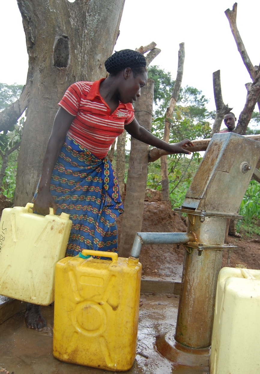 A woman collects clean water from one of the 50 boreholes constructed with the support of UK aid in Rwamwanja, Uganda. Each borehole is managed by a say a committee drawn from the refugee population. Picture: Andy Wheatley/DFID